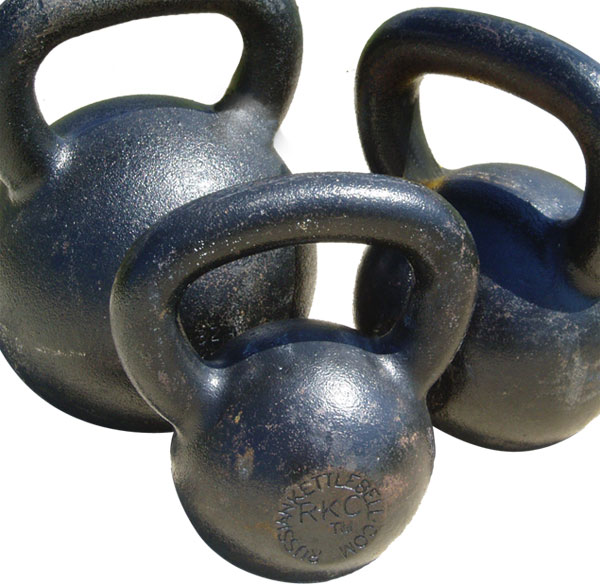 Three commonly used kettlebells (Dragon Door Brand) of various sizes - photographed in Florida, crummy background removed.